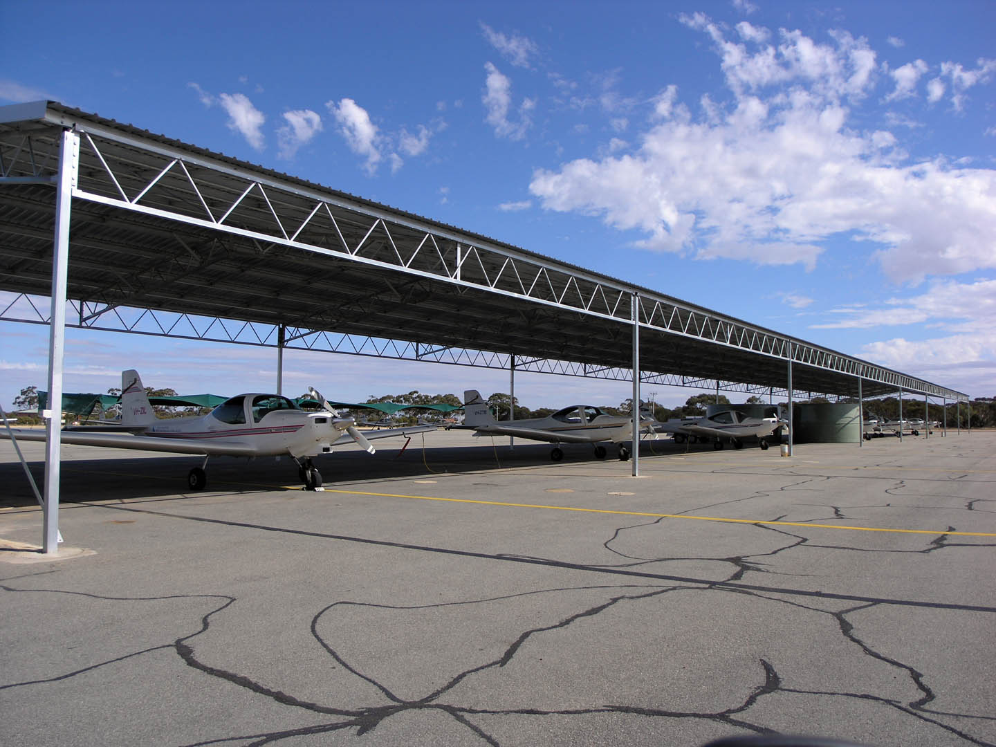 This is an image I took myself using an Olympus C8080W digital camera. It shows Merredin Aerodrome.